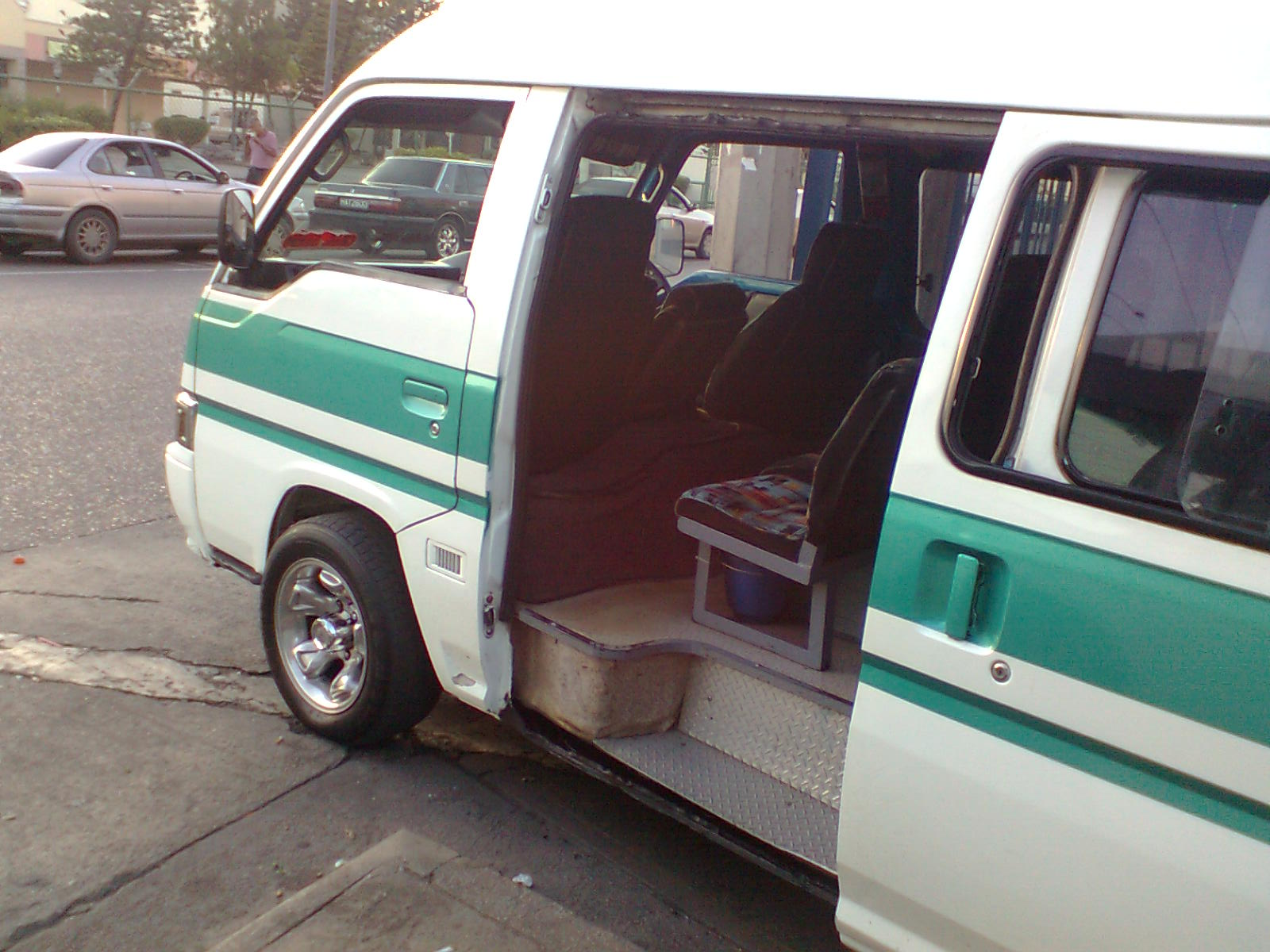 A Chaguanas/Couva Maxi-taxi awaiting passengers.